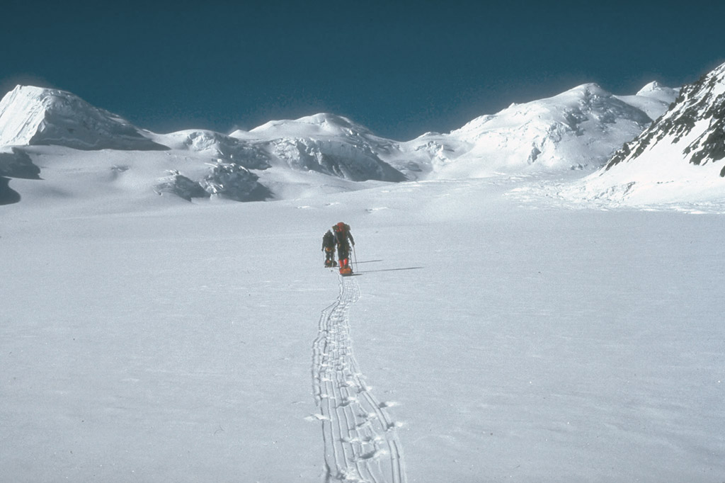 U.S. Geological Survey climbing party ascending the Klutlan Glacier en route to 4,766 m (15,636 ft) high Mount Churchill. Wrangell-St. Elias National Park and Preserve, Alaska, USA